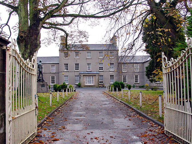 Royal School, Dungannon. The Royal School in Dungannon was founded in 1614, and is the oldest school in Ireland according to its web-site